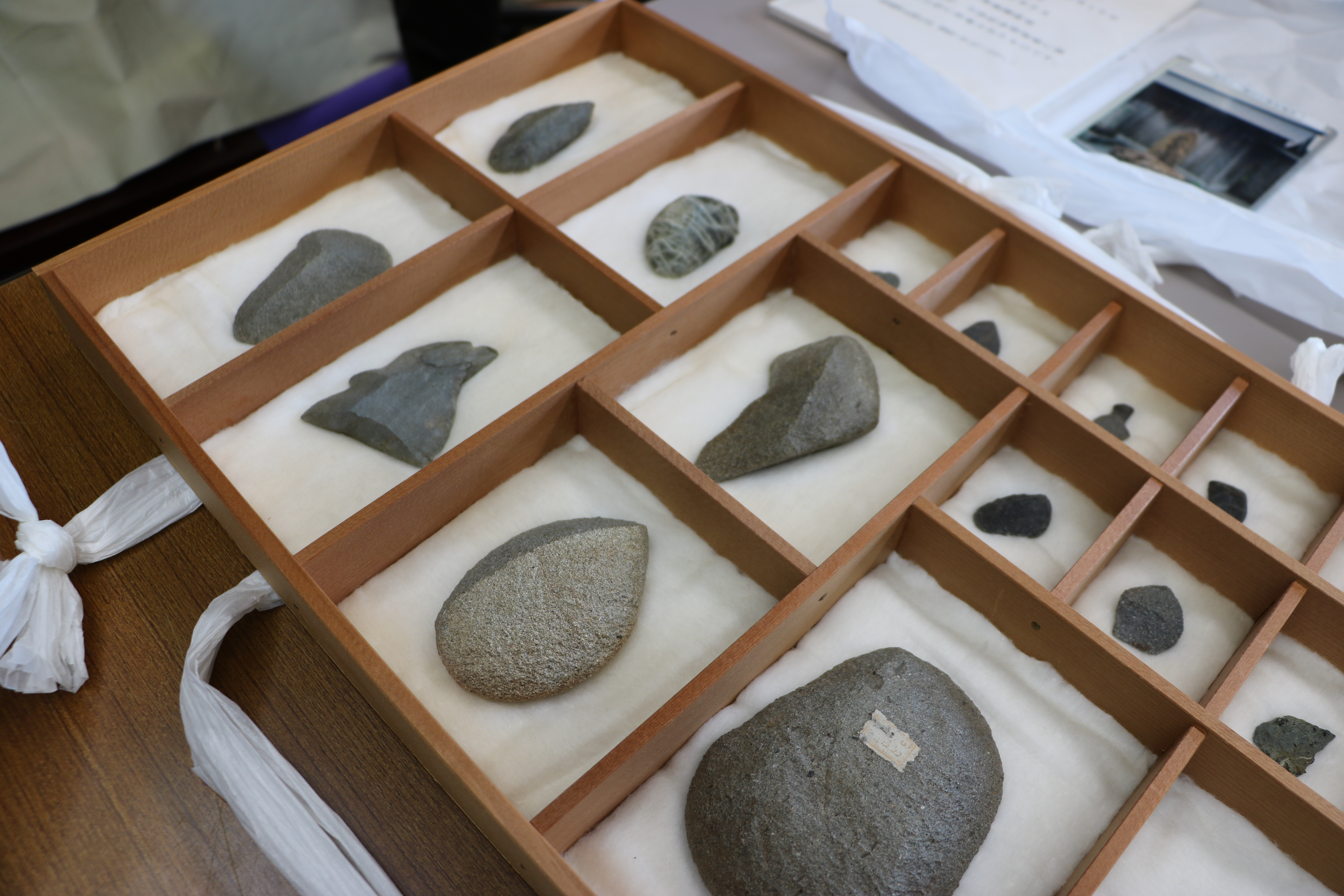 Shirowa district Dreikanter and Ventifacts production area wind erosion stone specimens collected in December 1940